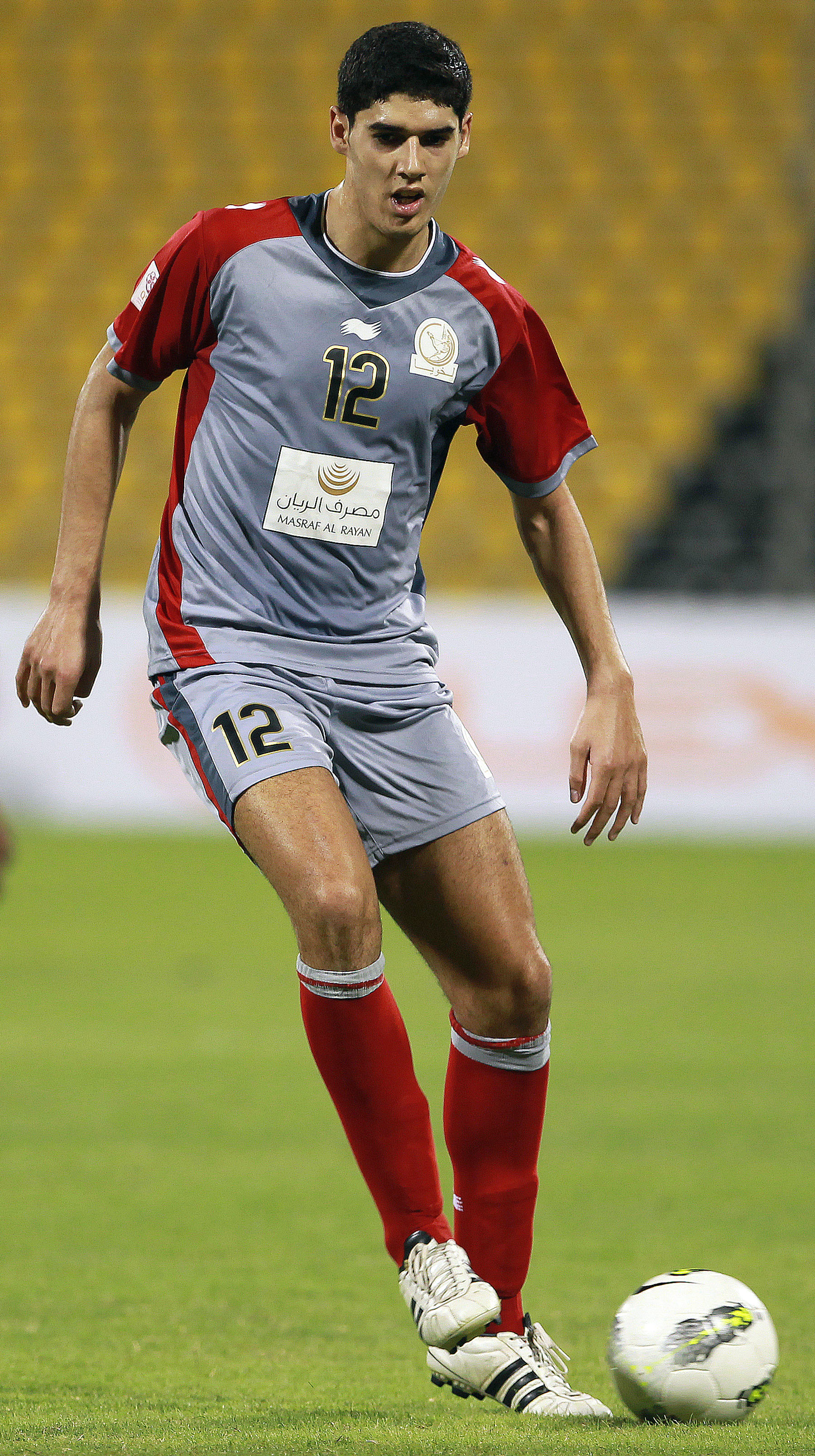 Lekhwiya's Karim Boudiaf dribbles the ball during their Qatar Stars League match. Pic by AK Bijuraj